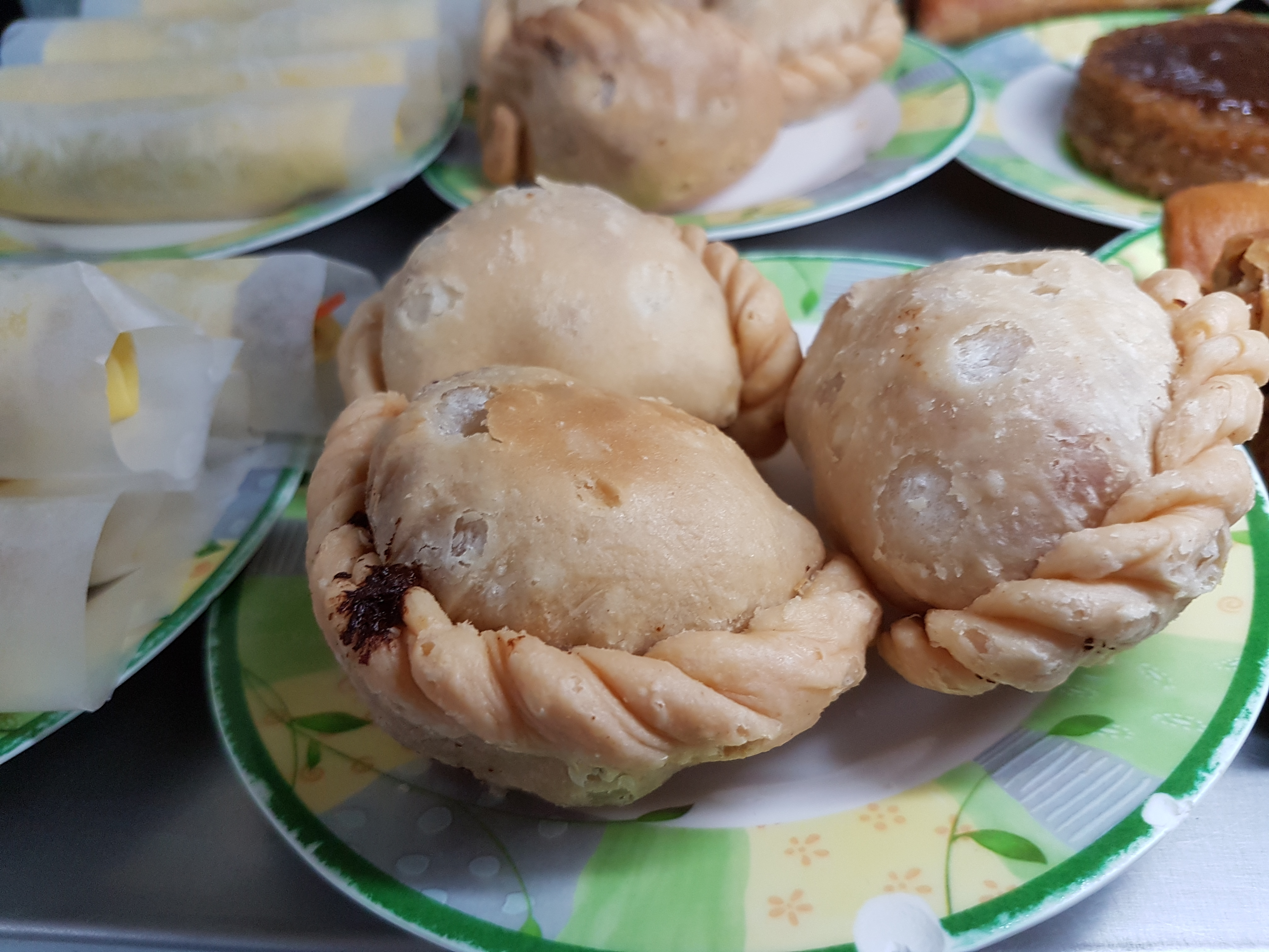 Empanada from the Philippines